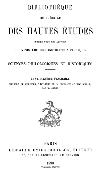 Nicolae Iorga - First page of Philippe de Mézières, 1327-1405, et la croisade au XIVe siècle, published by Librairie Émile Bouillon, Paris in 1896.